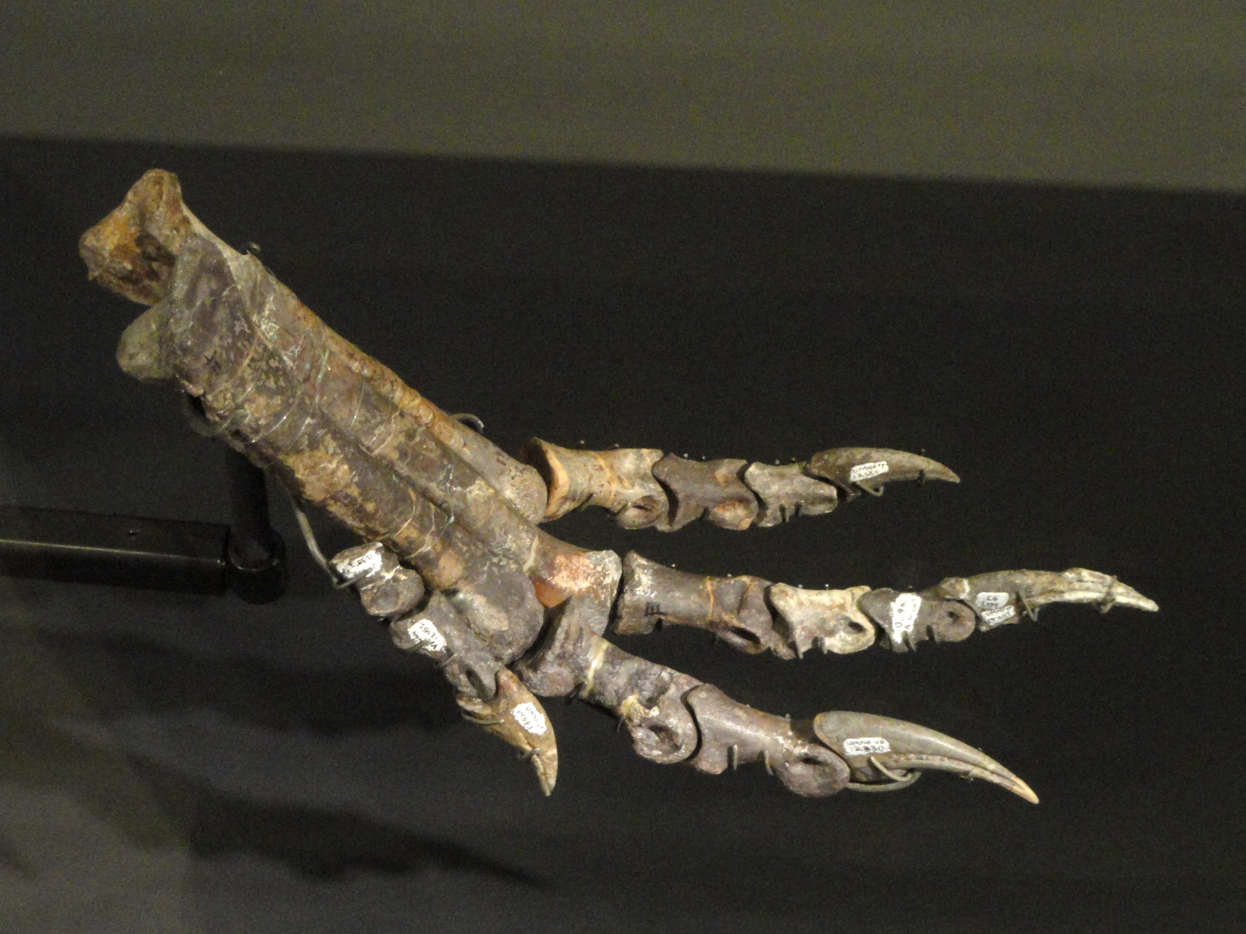 Fossil specimen in the Natural History Museum of Utah, Salt Lake City, Utah, USA.